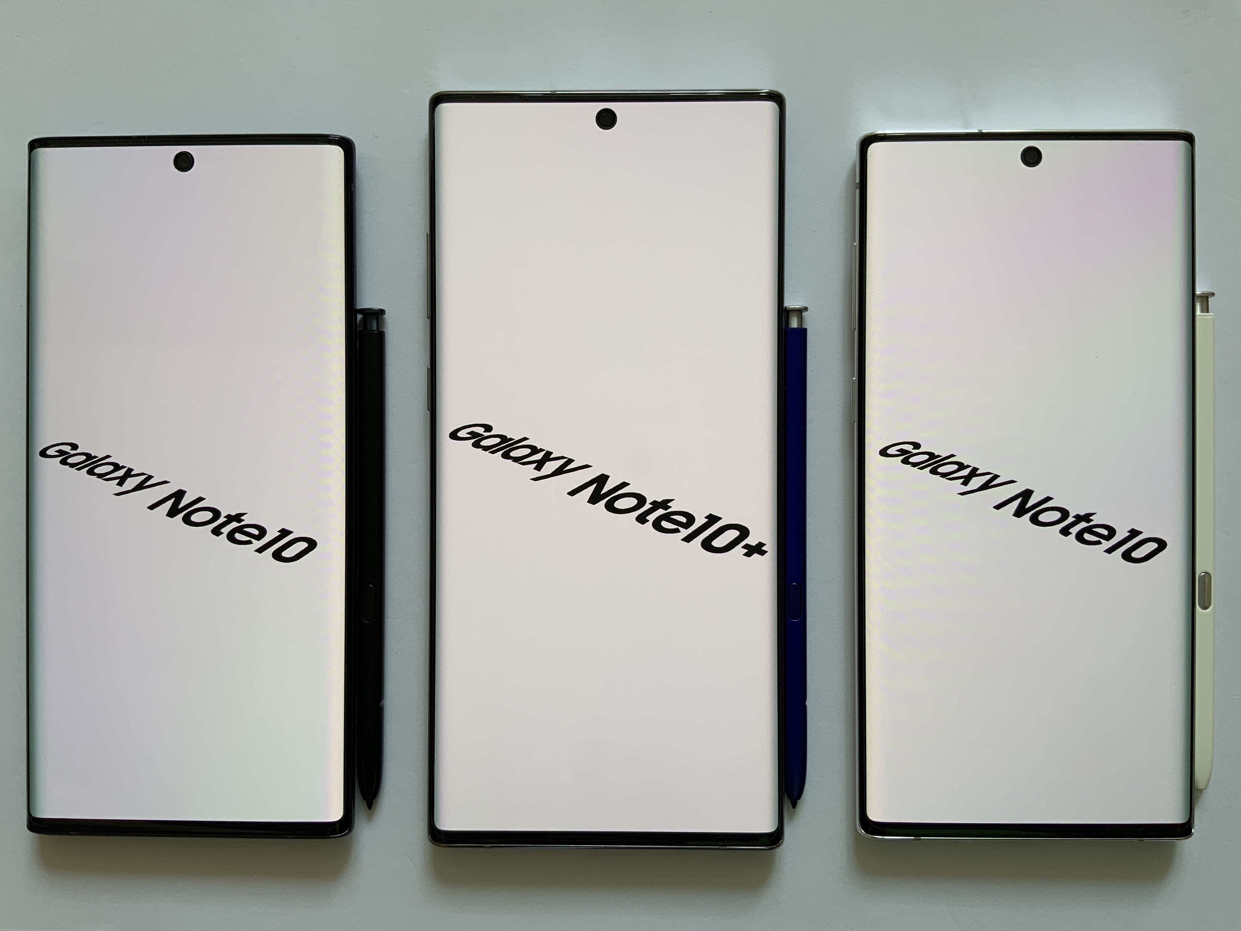 SAMSUNG Galaxy Note10 SAMSUNG Galaxy Note10 5G SAMSUNG Galaxy Note10+ SAMSUNG Galaxy Note10+ 5G